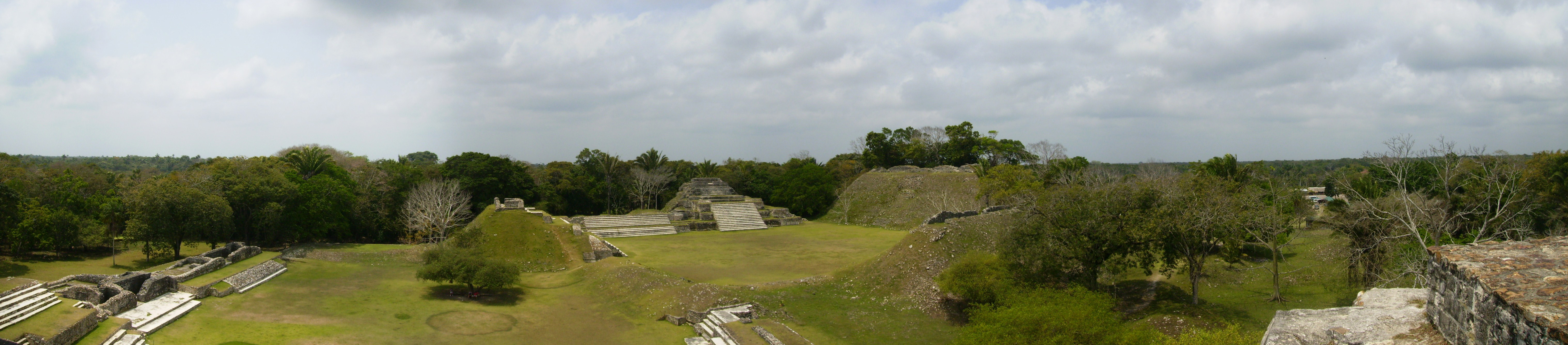 Overview pan of Altun Ha site in Belize